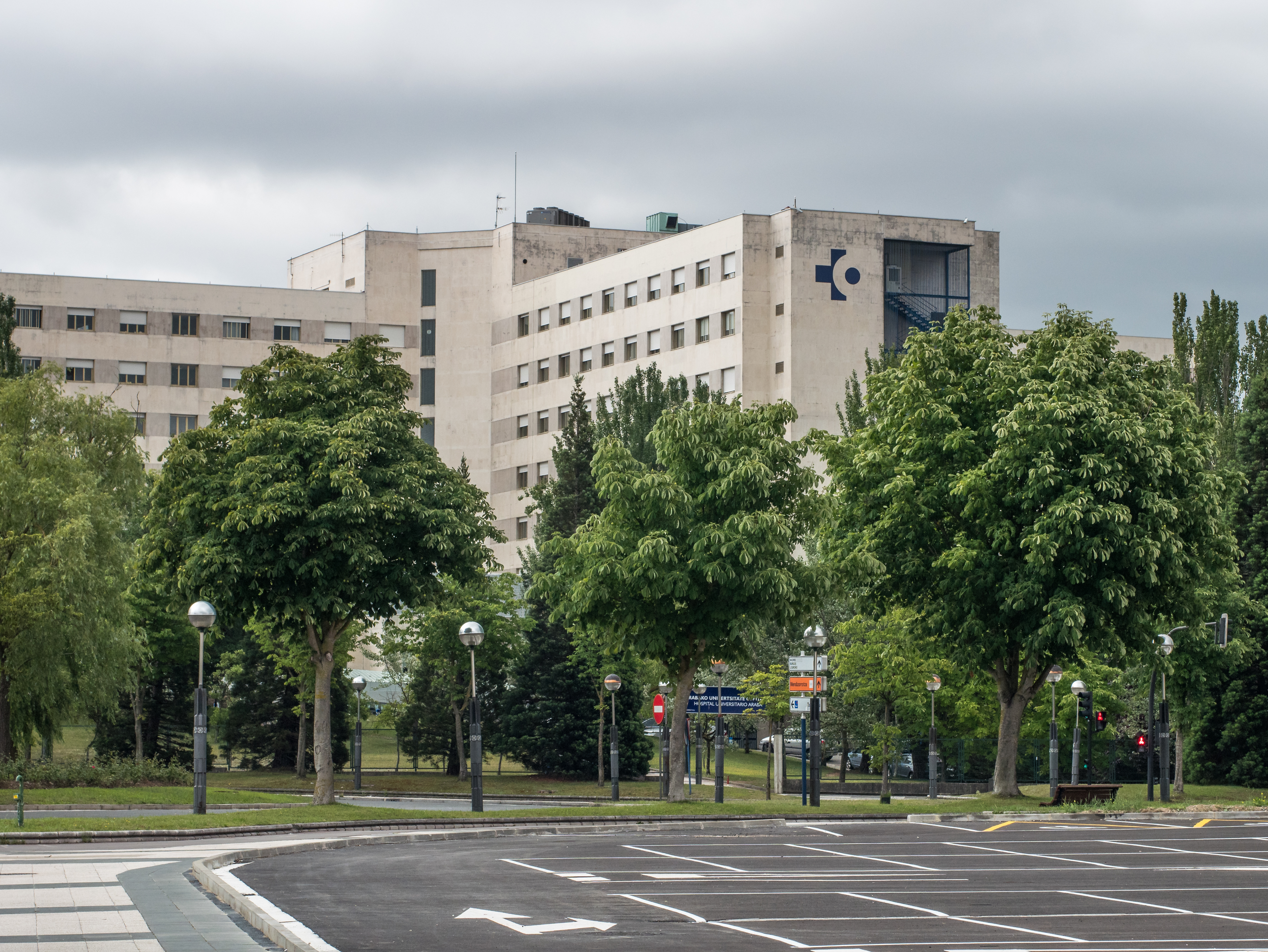 Txagorritxu hospital. Vitoria-Gasteiz, Basque Country, Spain